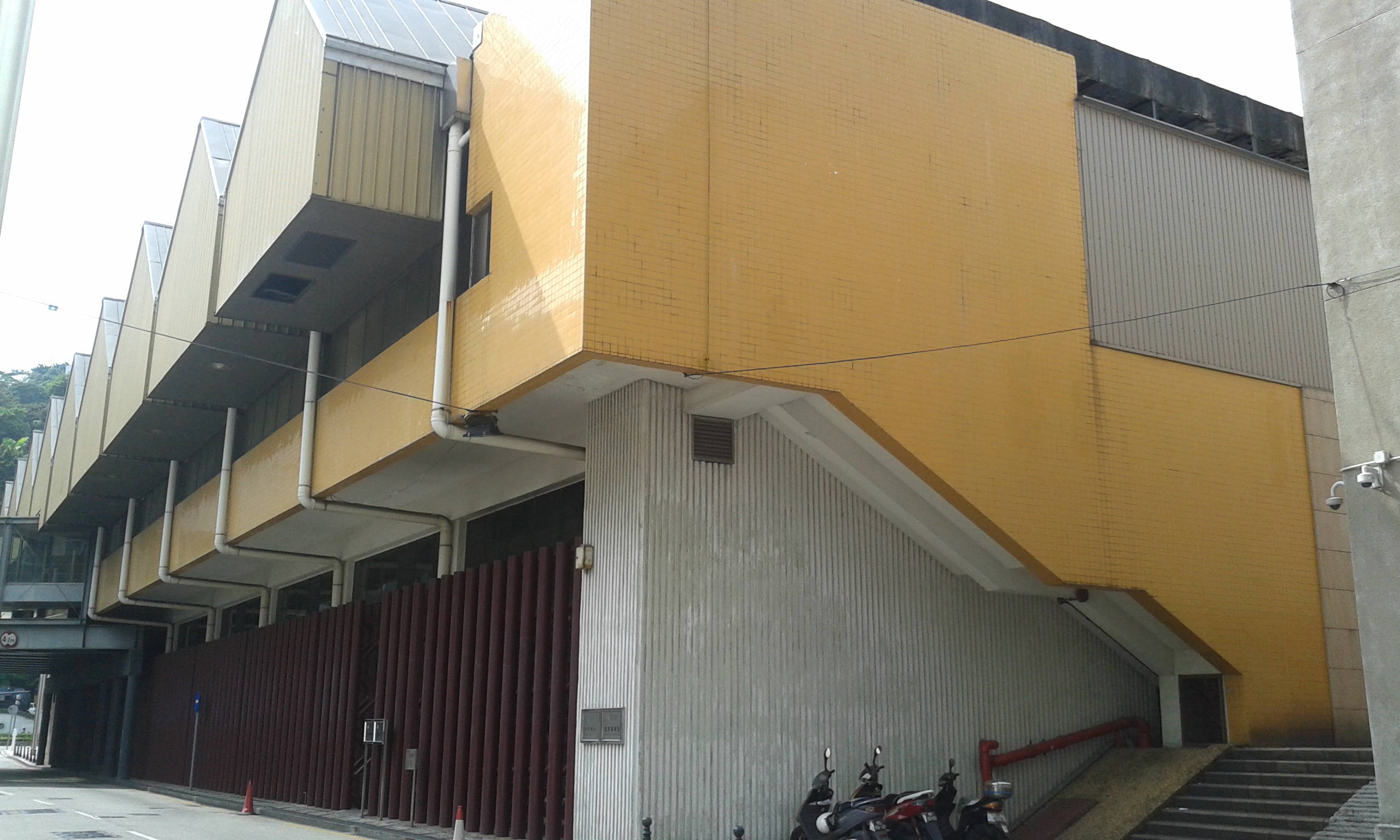 Zone1 of Forum de Macau